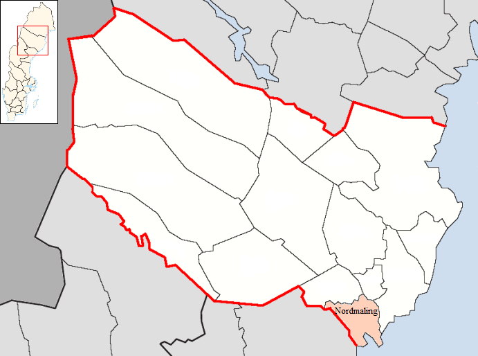 Nordmaling Municipality in Västerbotten County Designed by me. Mere outlines are a PD source from